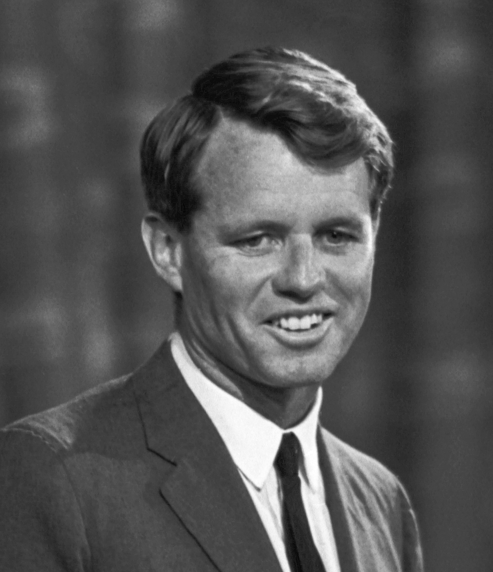 Robert Kennedy appearing before Platform Committee